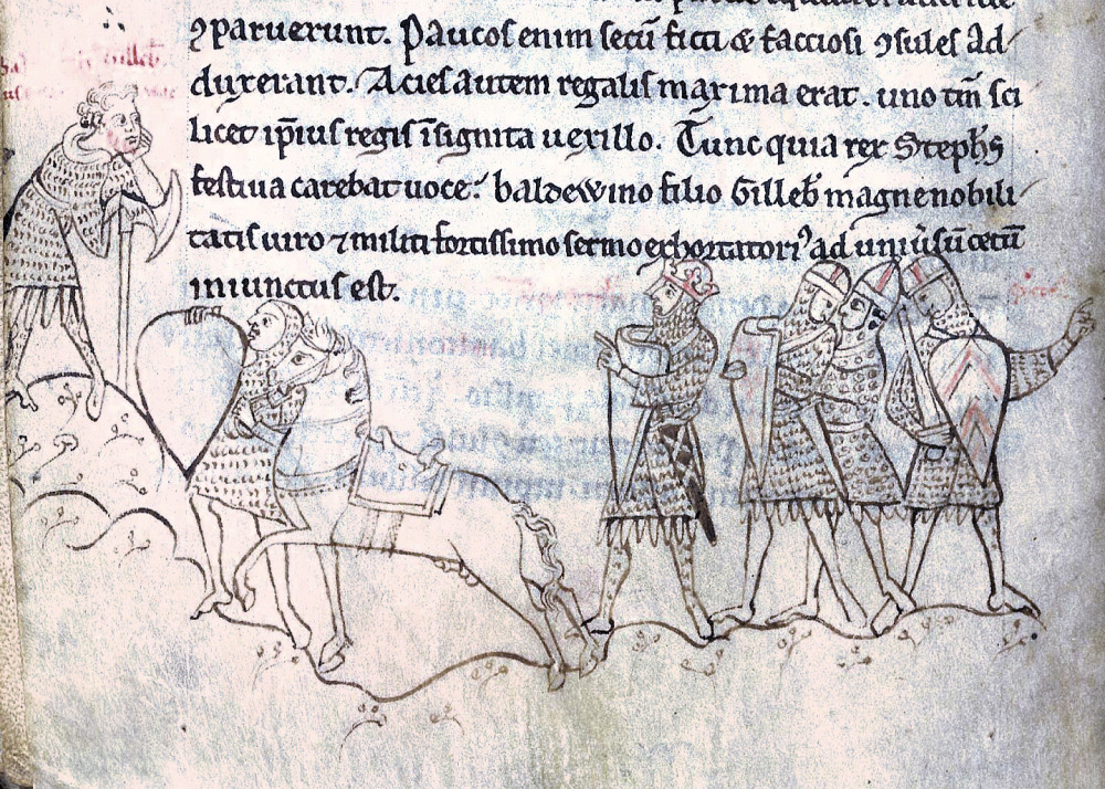 Captions identify the man to the left as Baldwin FitzGilbert and the central crowned figure as King Stephen; the king is directing Baldwin to address the army of his behalf.